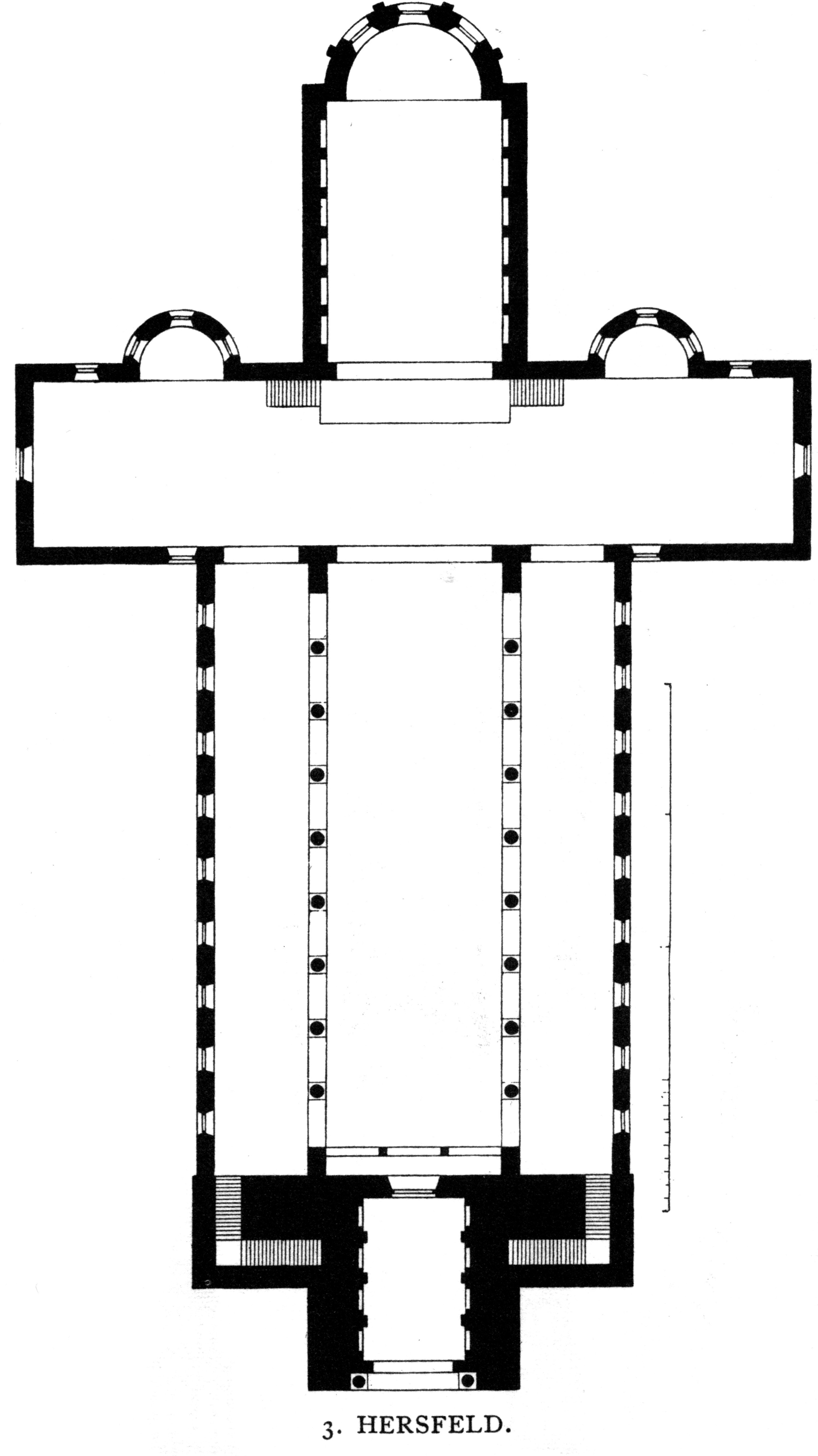 Hersfeld, Cathedral.